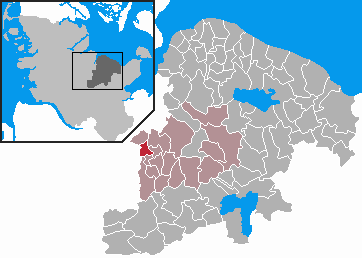 This map shows the area of the Gemeinde (municipality) Klein Barkau in the Kreis (district) Plön, Schleswig-Holstein, Germany.